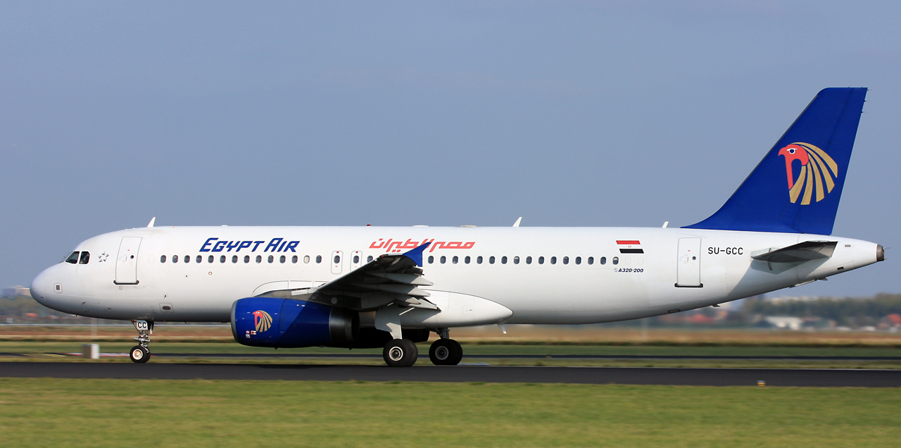 EgyptAir A320 at Schiphol Airport